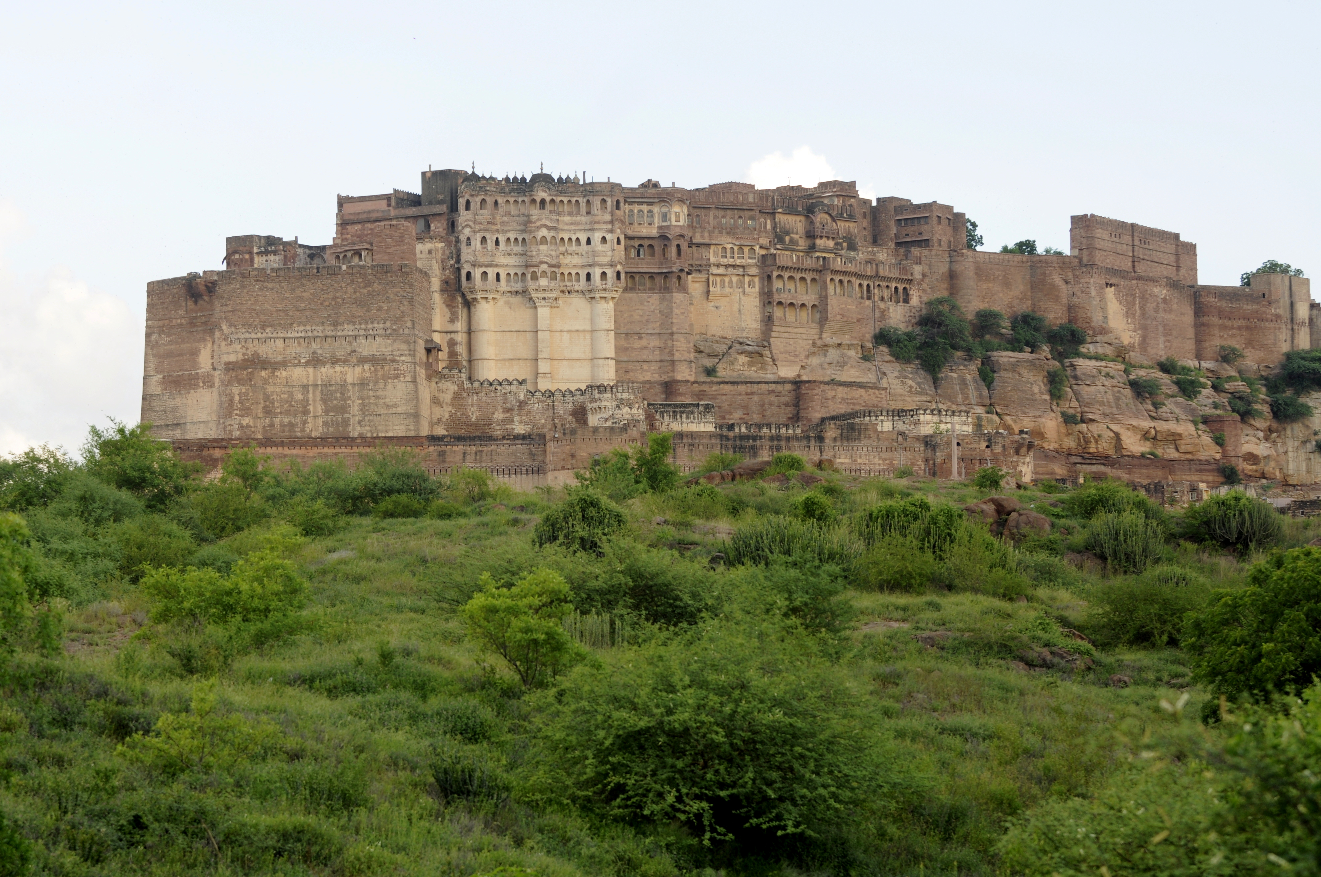 Mehrangarh Fort as seen from Rao Jodha Desert Rock Park, Jodhpur, Rajasthan, India.